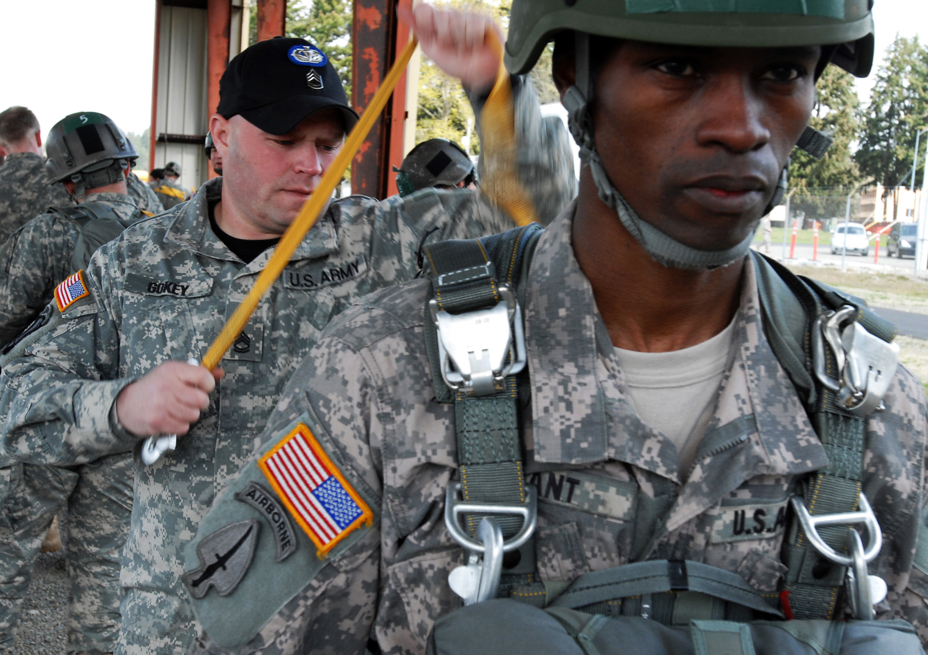 Jumpmaster ground work